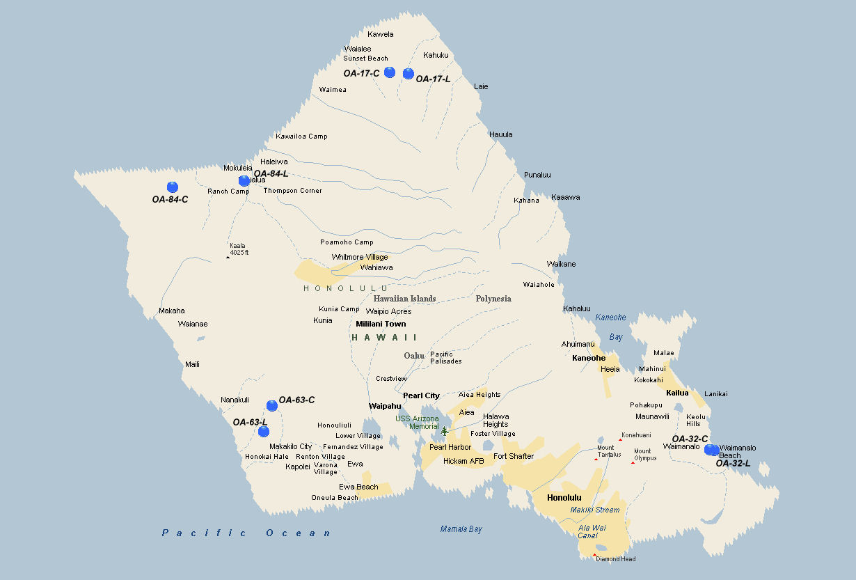 Hawaii Nike Missile Sites